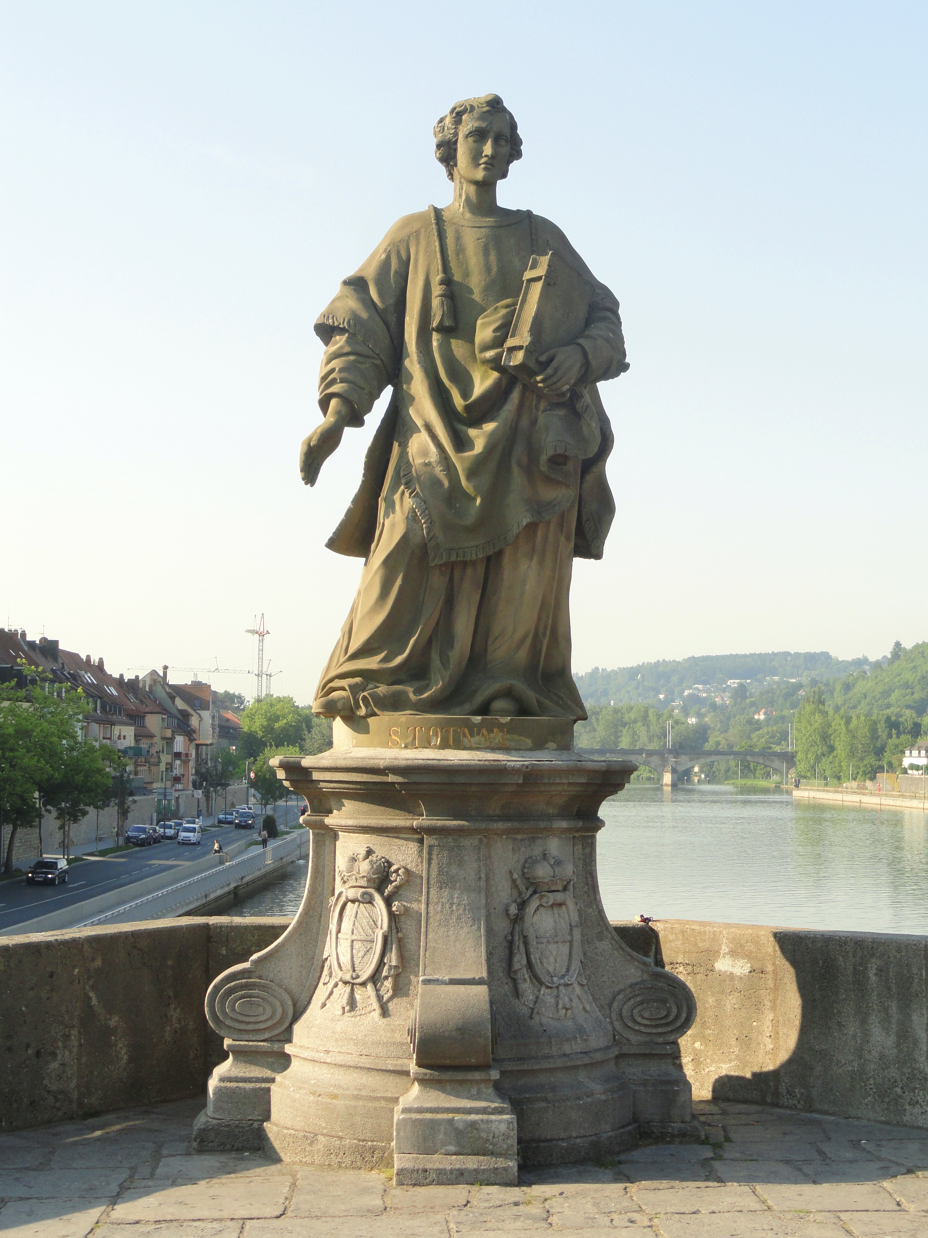 Statue on the Alte Mainbrücke in Würzburg, Germany.